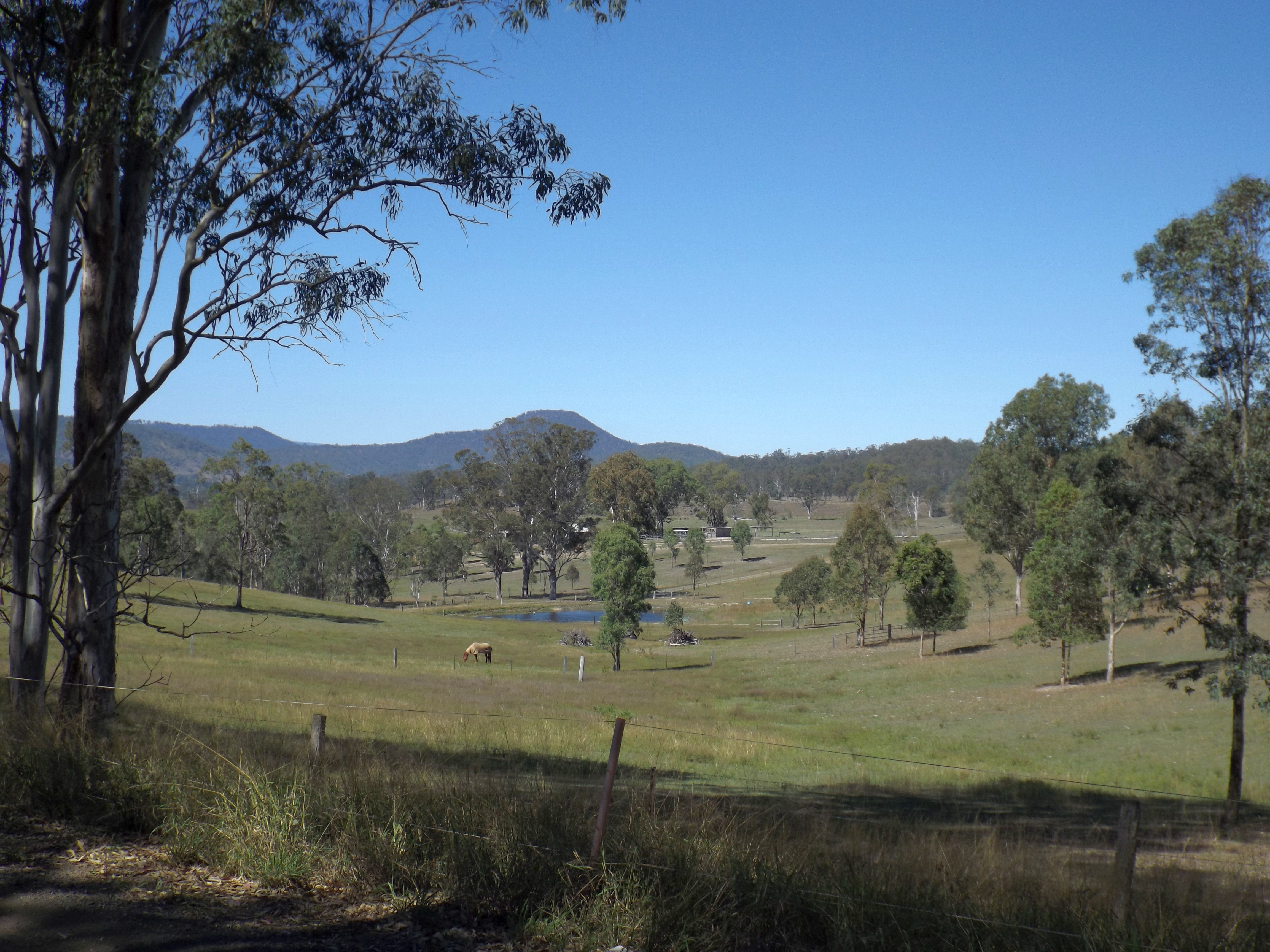 Photo of paddocks at Biddaddaba, Scenic Rim Region, Queensland, Australia. Mount Witheren in Nindooinbah can be seen in the background.